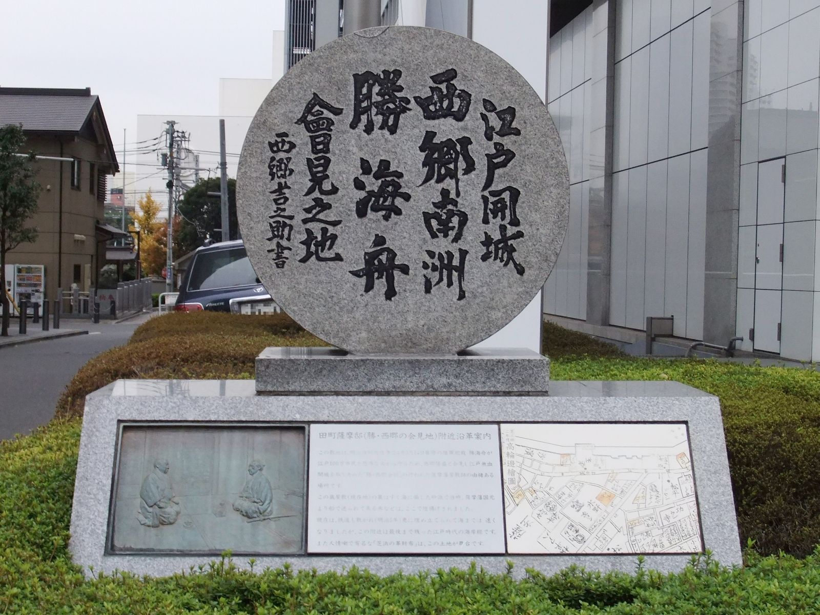 Site of the Meeting between Saigō Takamori and Katsu Kaishū at Shiba, Tokyo.